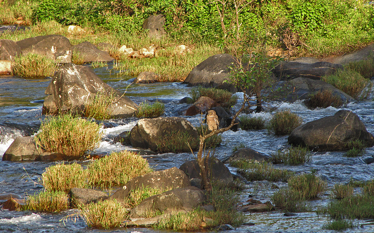 A lone Brown Fish Owl Ketupa zeylonensis waits for grub. Tamil Nadu, India.